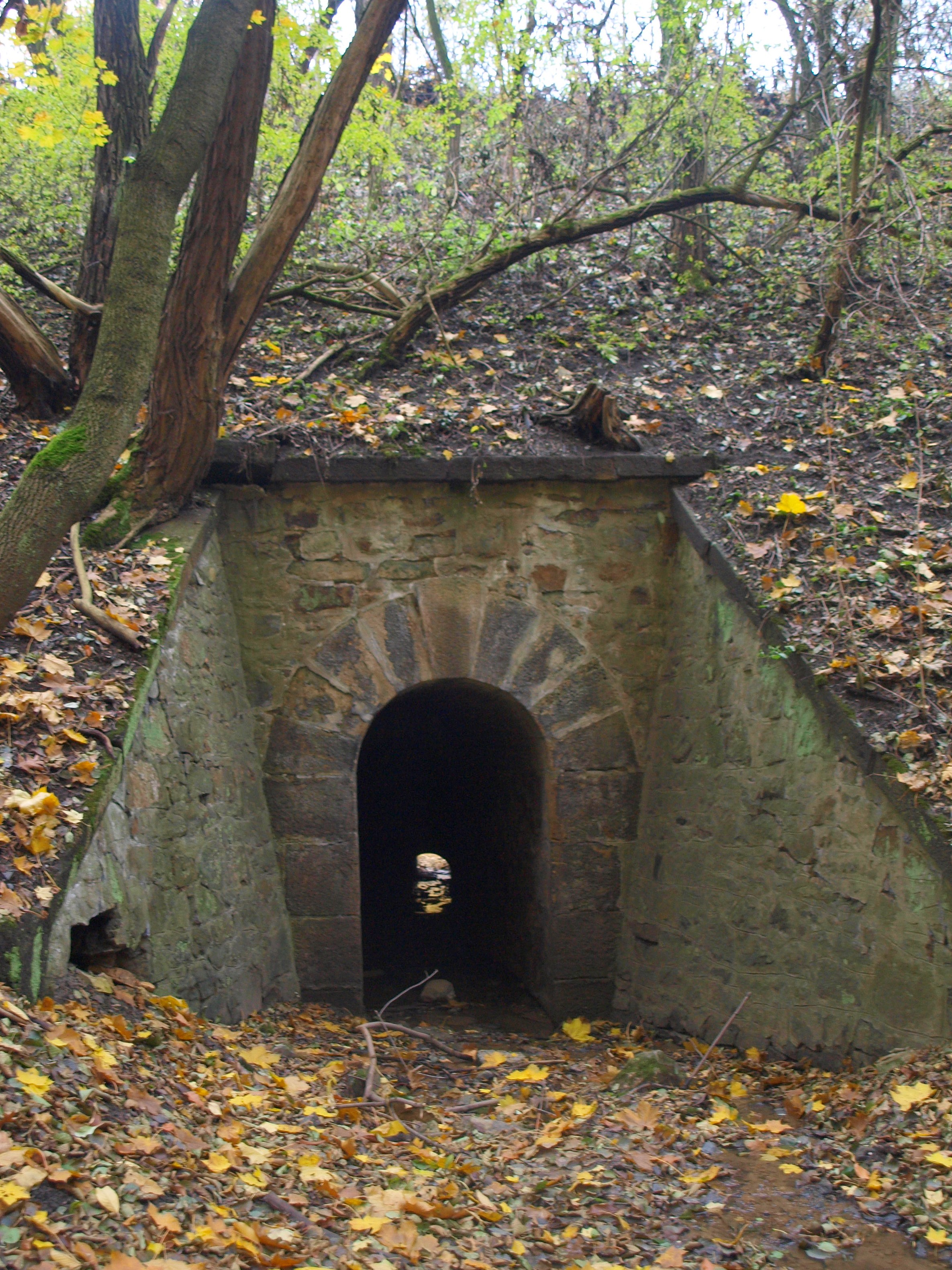 Small tunnel for stream (??) under railway track 122 in Košíře, Prague